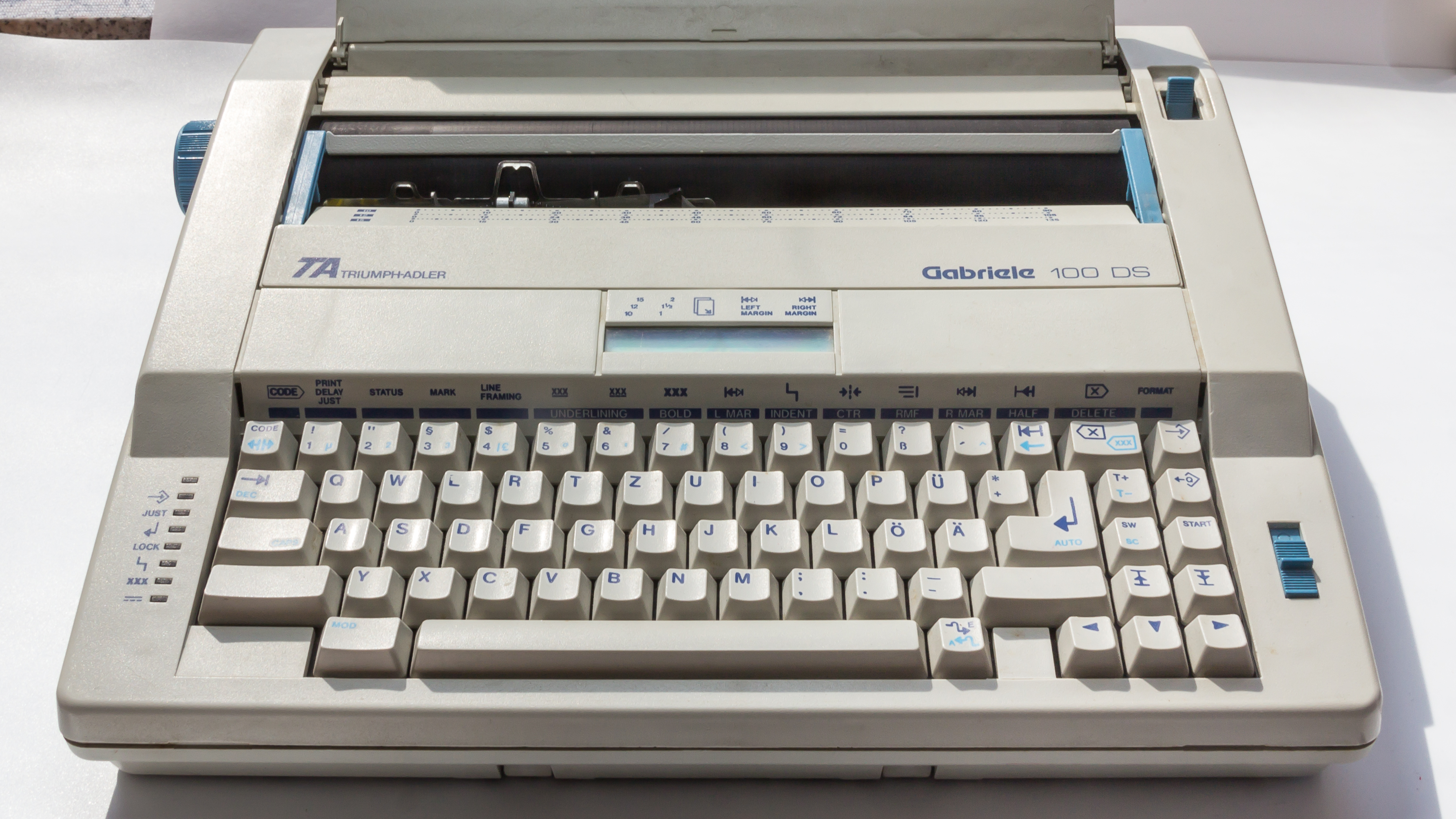 Typewriter Triumph-Adler Gabriele 100 DS with German keyboard layout